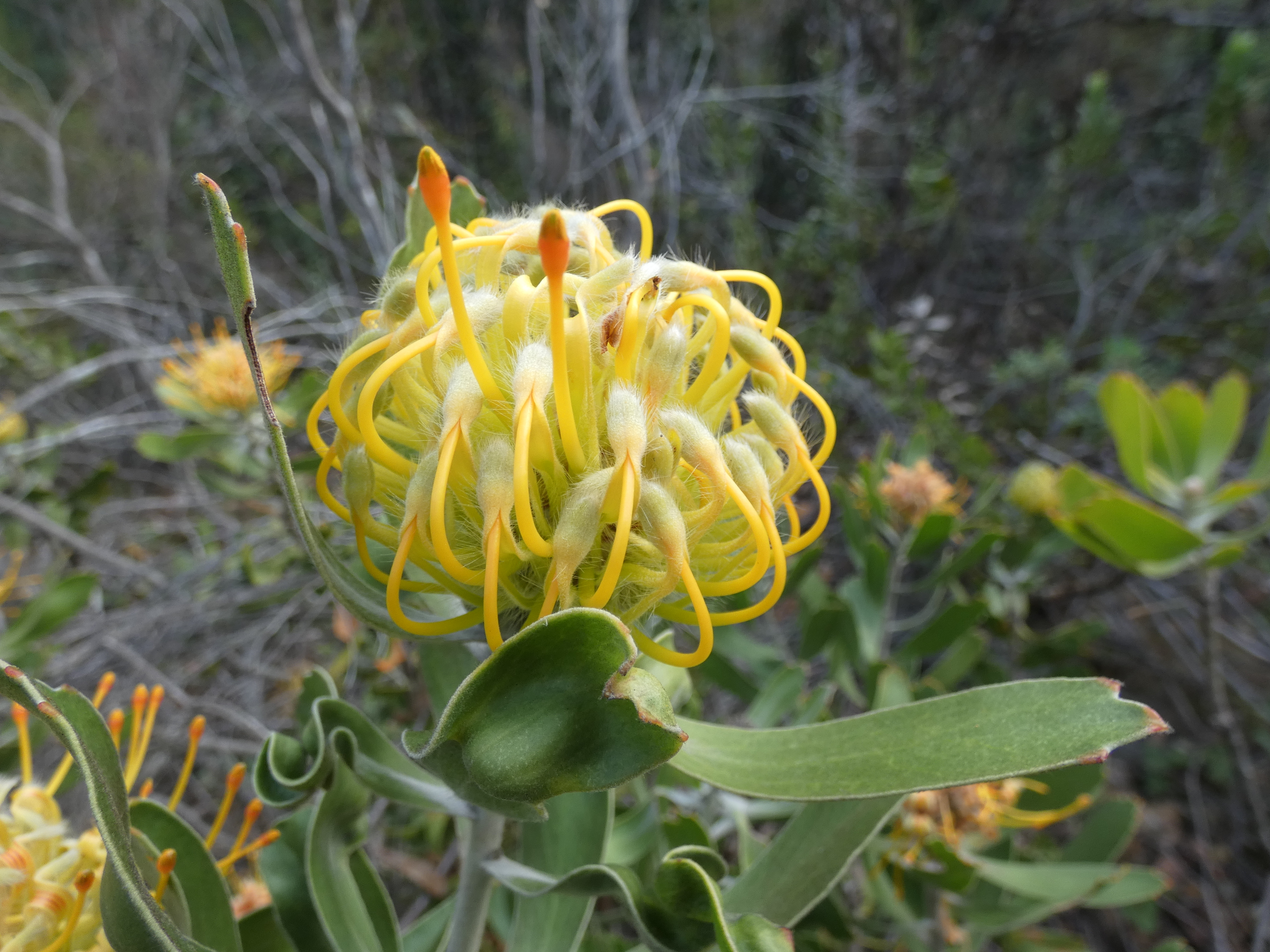 Wart-stemmed pincushion Leucospermum cuneiforme, photographed on the Potberg